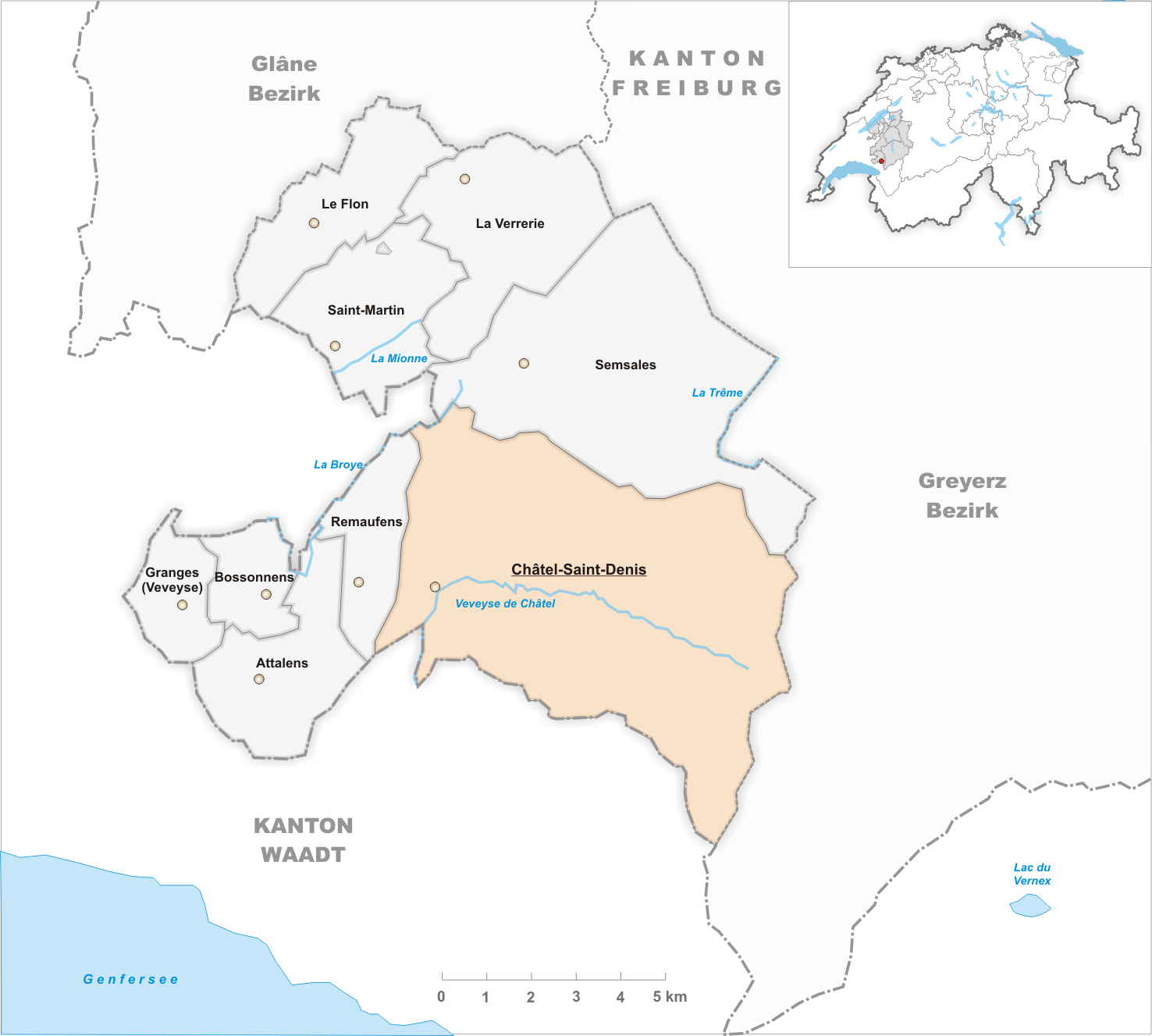 Municipality Châtel-Saint-Denis